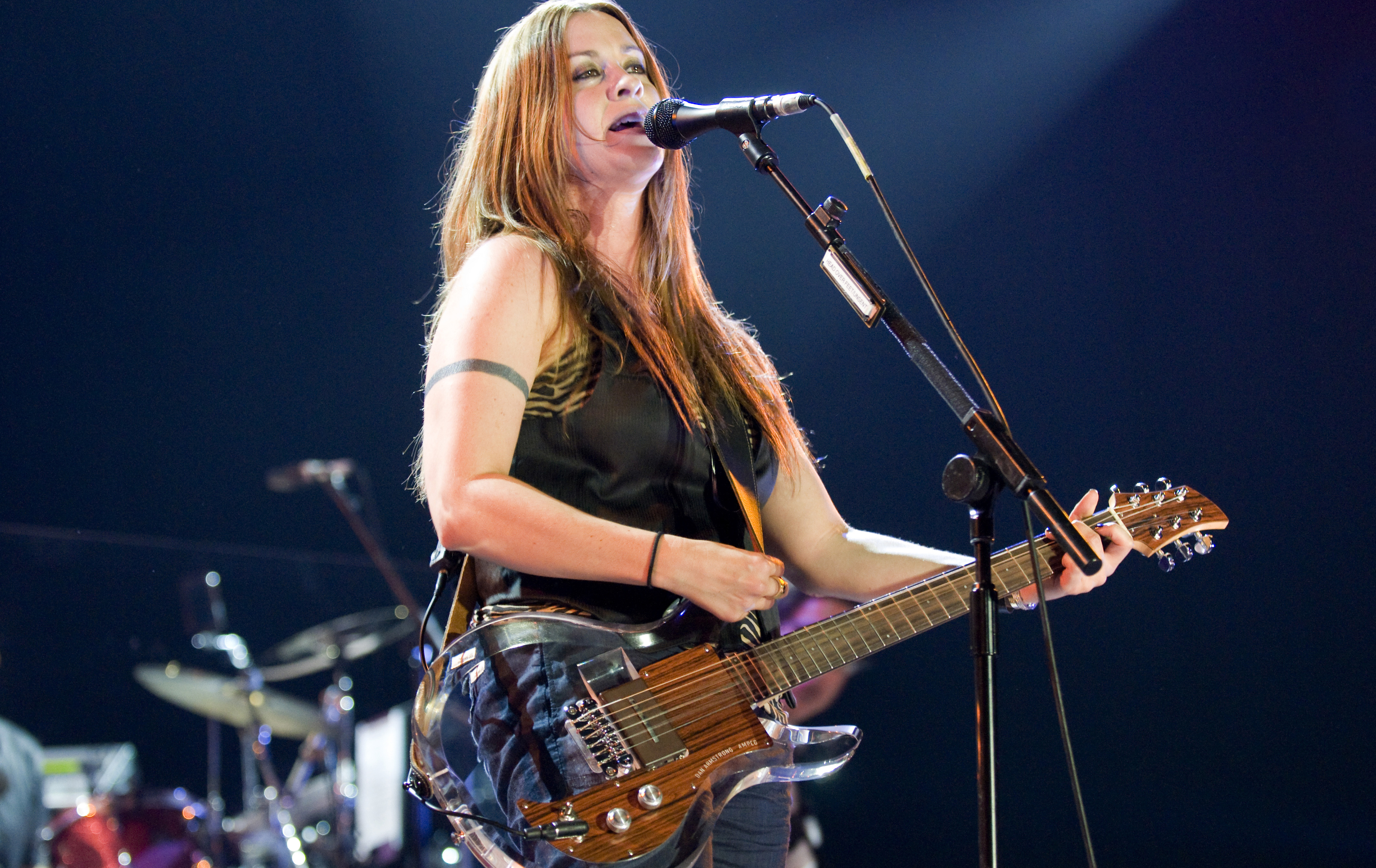 Alanis Morissette. Performing a live concert in the Espacio Movistar, Barcelona, June 2008.